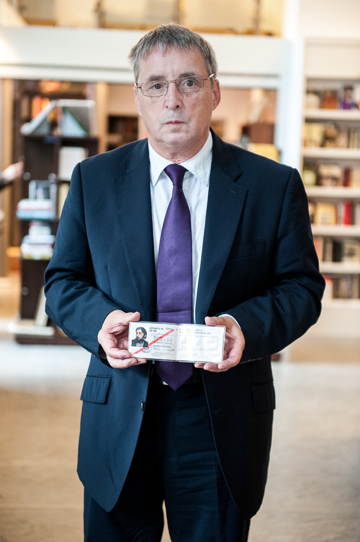 Wolfgang Templin posing with his object that will be digitised at the Europeana 1989 roadshow in Warsaw, Poland.